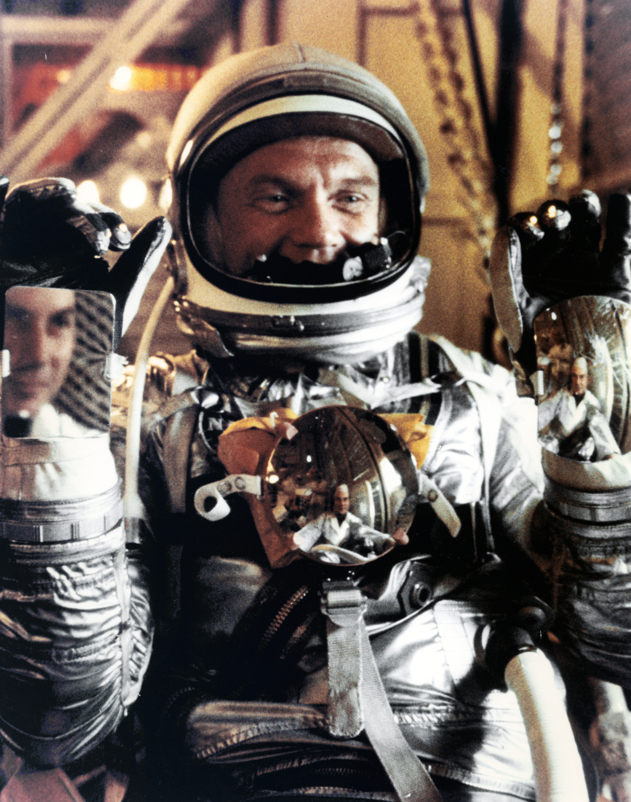 Astronaut John Glenn gives ready sign during Mercury-Atlas 6 pre-launch training activities.